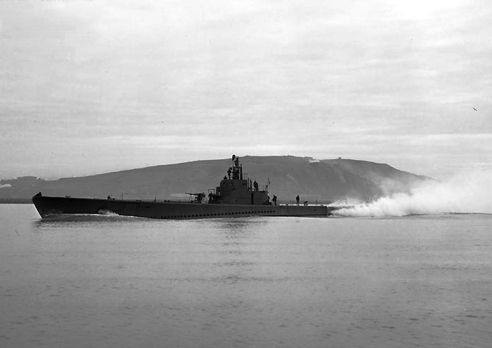 USS_Seawolf; Port side view of the Seawolf (SS-197) underway off the Mare Island Navy Yard, California, 7 March 1943. Official U.S. Navy Photograph, from the collections of the Naval Historical Center. US Navy photo # NH 99549.